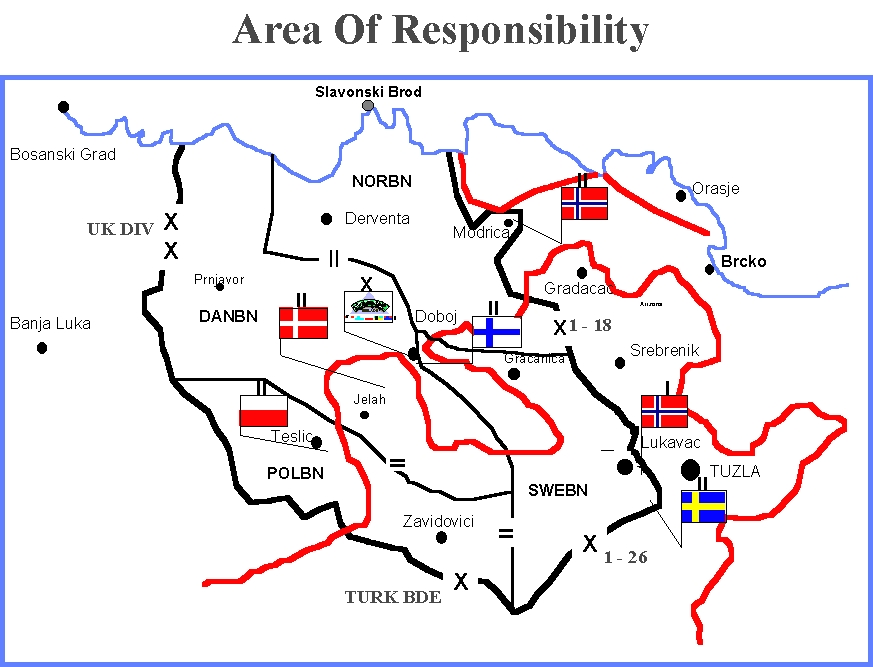 Area of Responsibility for the Nordic Polish Brigade (NORDPOL BDE). The Brigade Headquarters were established on 8 February 1996 in the former barracks in the west side of Doboj, designated the North Pole Barracks. The whole Brigade was completely deployed and operational in mid-February, when the last element, the main body of the Finnish Construction Battalion arrived. The Brigade was designated the Nordic-Polish Brigade (NORDPOL BDE) on 10 February 1996.